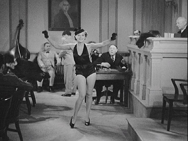 Screenshot from The Three Stooges short subject Disorder in the Court.